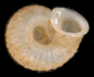 Photo of shell of Vallonia costata. Locality: Germany: Neckar, riverside deposit near Neckarsteinach. Date: March 1953.